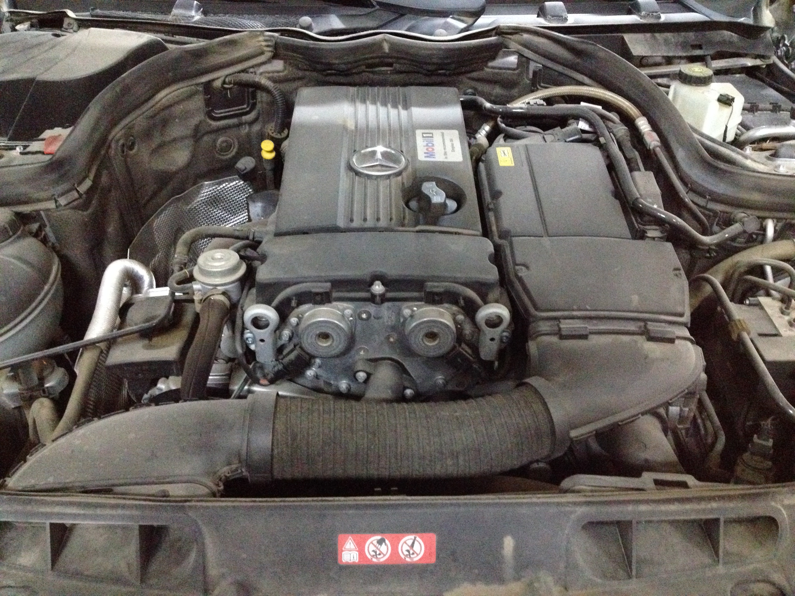 The Mercedes Benz C200 KOMPRESSOR KE18ML Engine